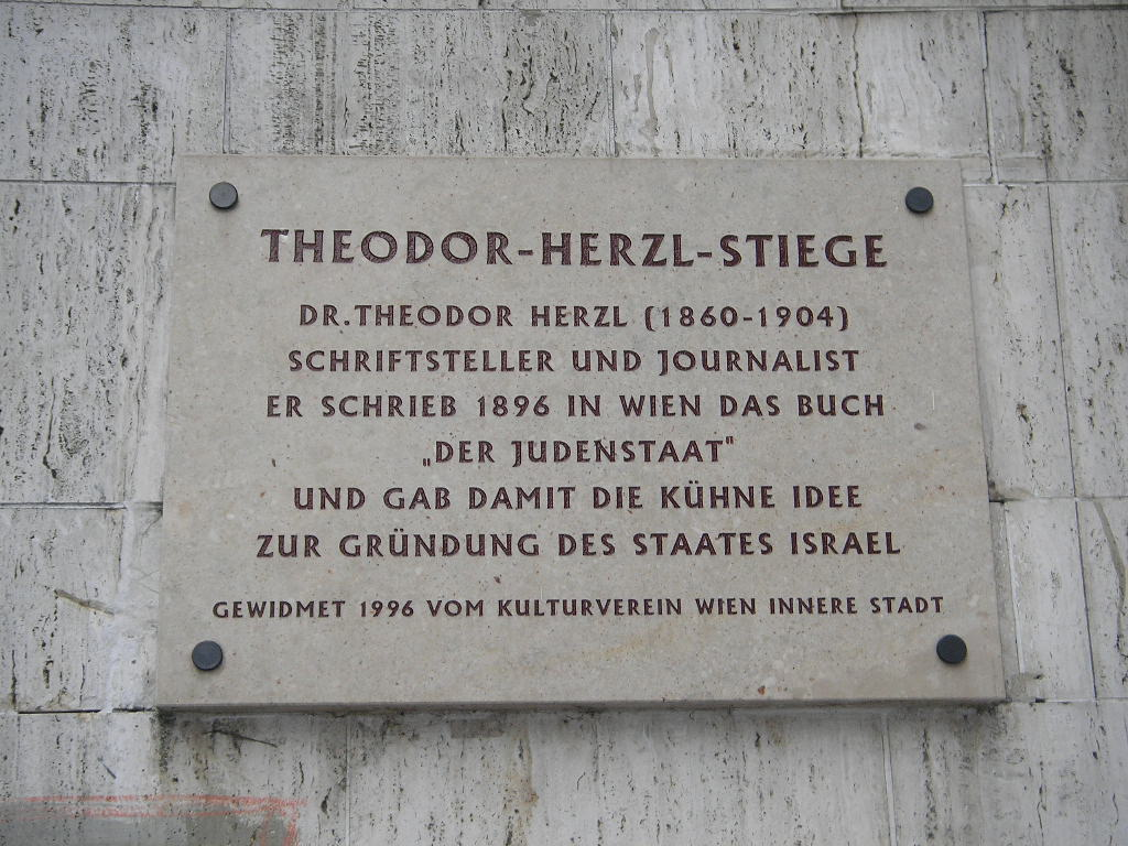 Memorial plaque to Theodor Herzl in Vienna, 1st district, Sterngasse.